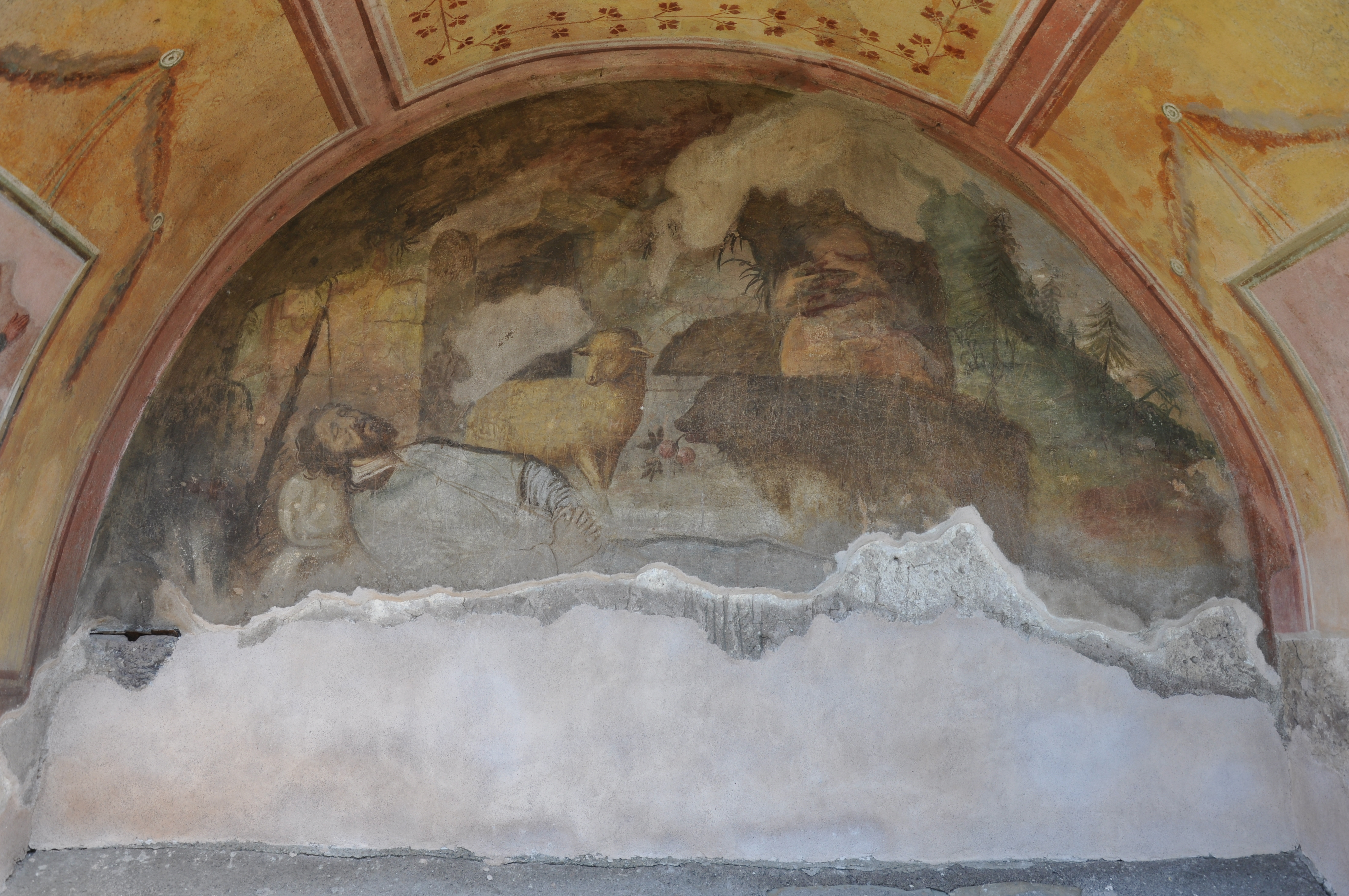 Affresco tomba di San Glisente in Berzo Inferiore